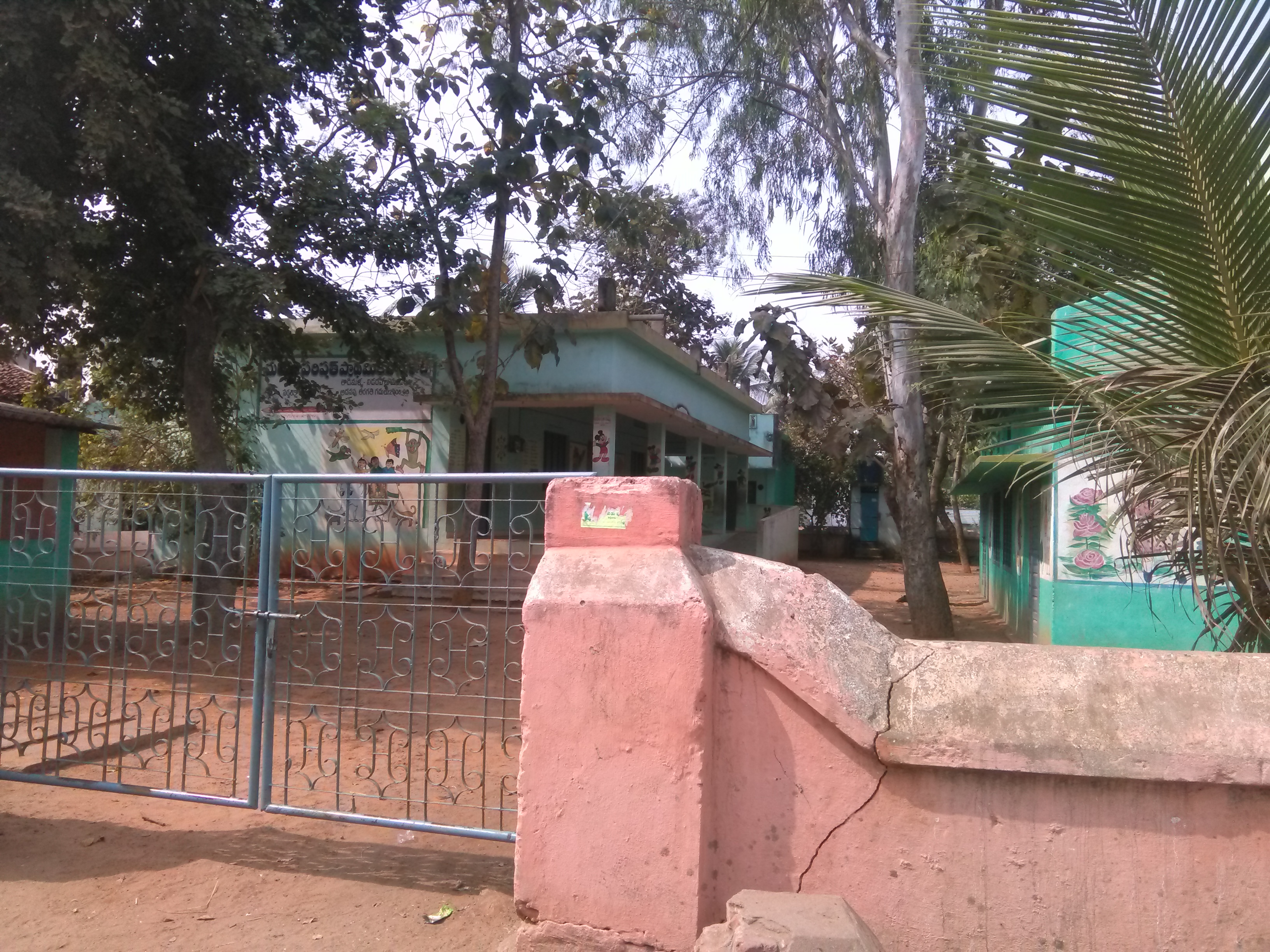 A.P Village Tadimalla (1)